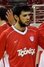 PAOK - Olympiacos